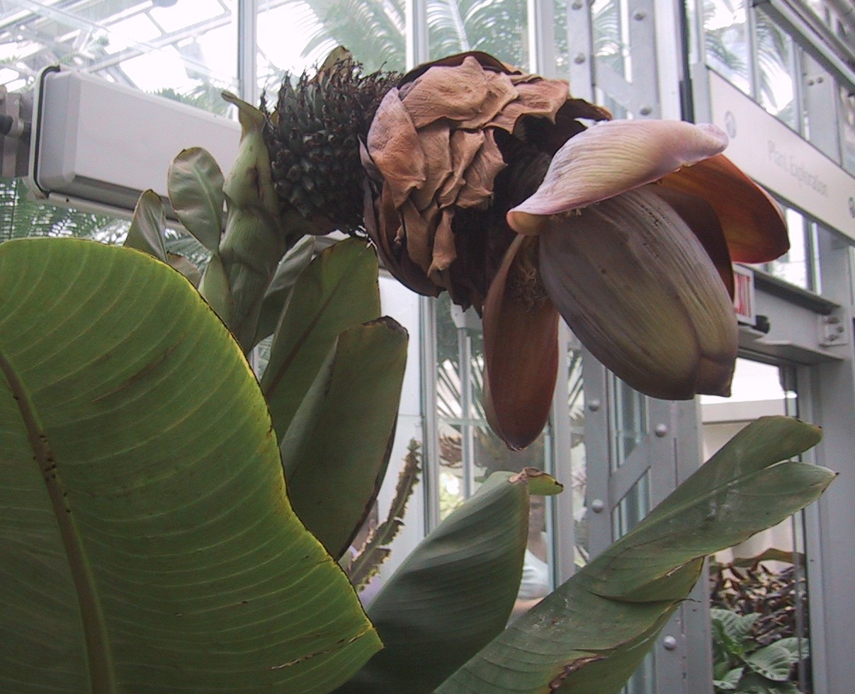 Ensete superbum in the National Botanical Garden in Washington D.C.